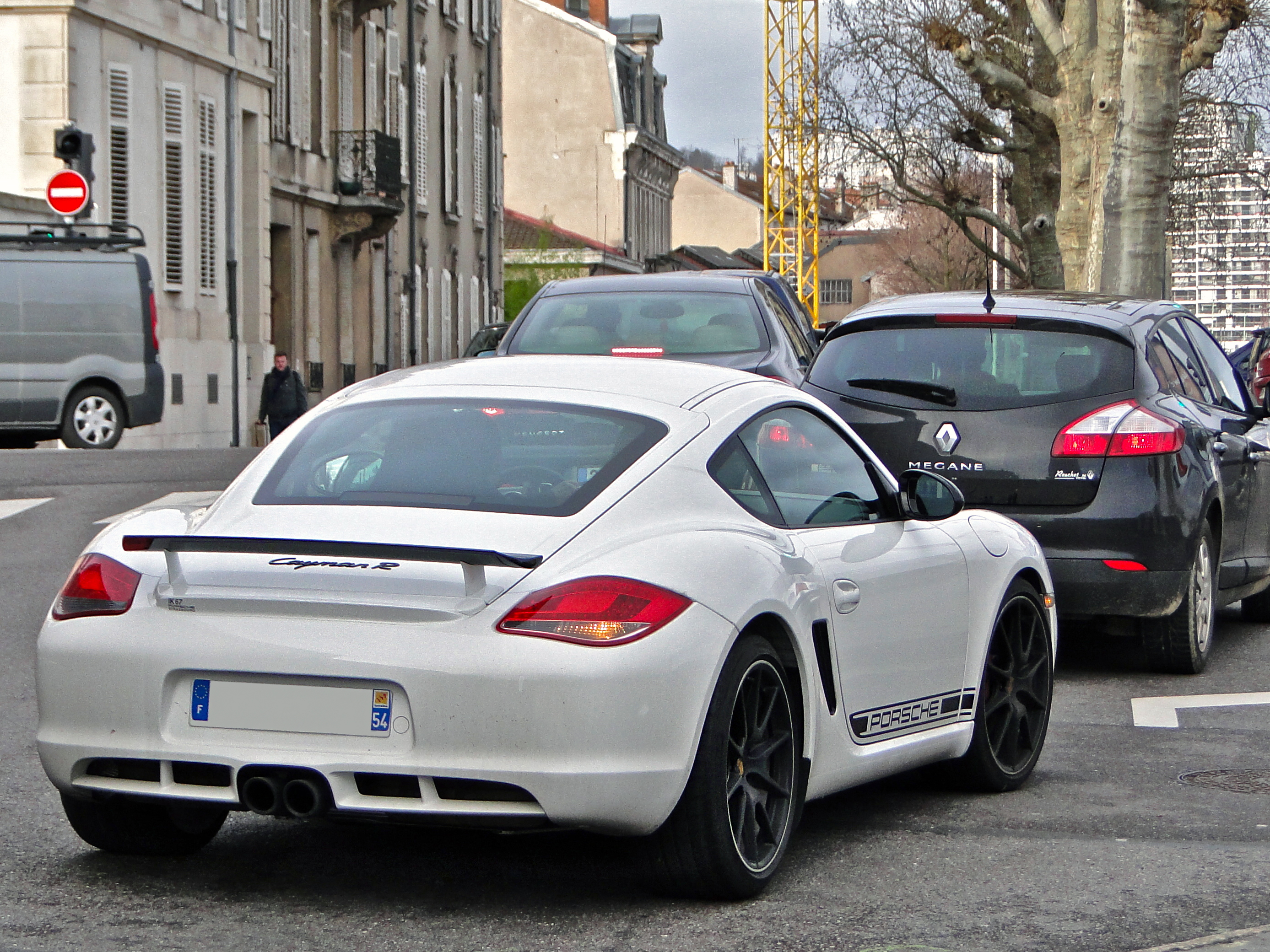 Porsche Cayman R